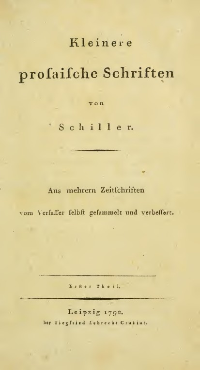 Title page